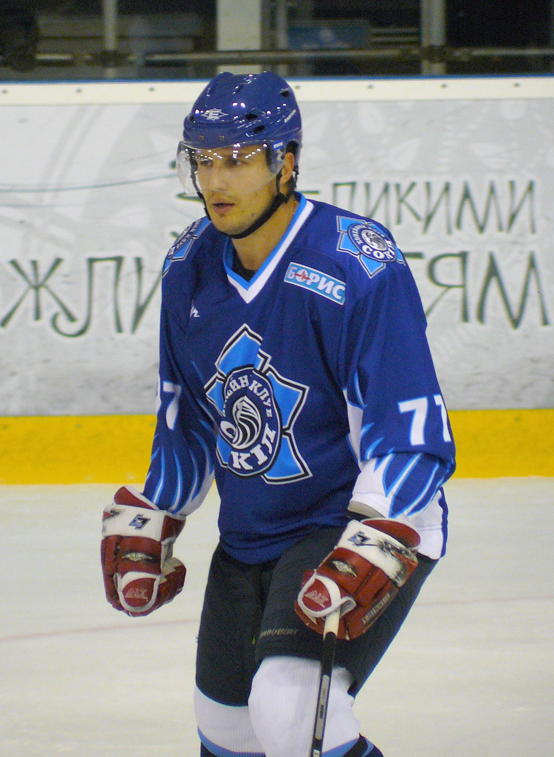 Forward Kostiantyn Kasianchuk #77 of the Sokil Kyiv during the Belarus Extraliga game against the Yunost Minsk on September 15, 2010 at the Terminal Arena in Brovary, Ukraine. Yunost Minsk won the game 2:1.